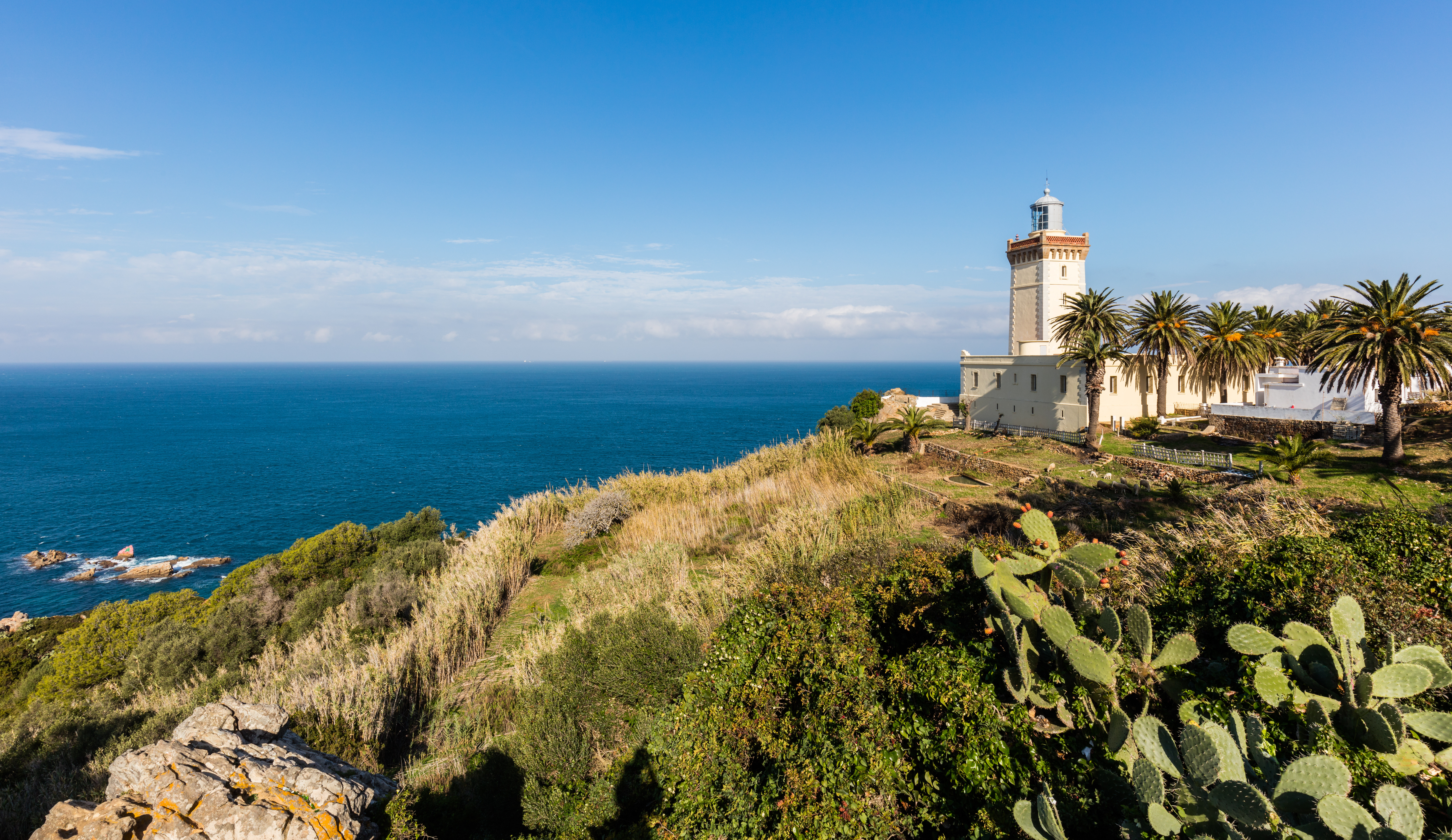 Lighthouse of Cape Spartel, Tangier, Morocco